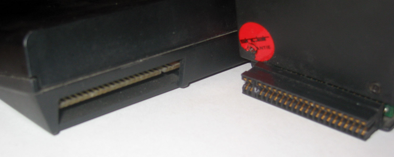 Sinclair ZX-81 memo slot - picture taken by Polimerek 22:04, 20 Apr 2005 (UTC)